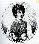 Johann Georg Grasel